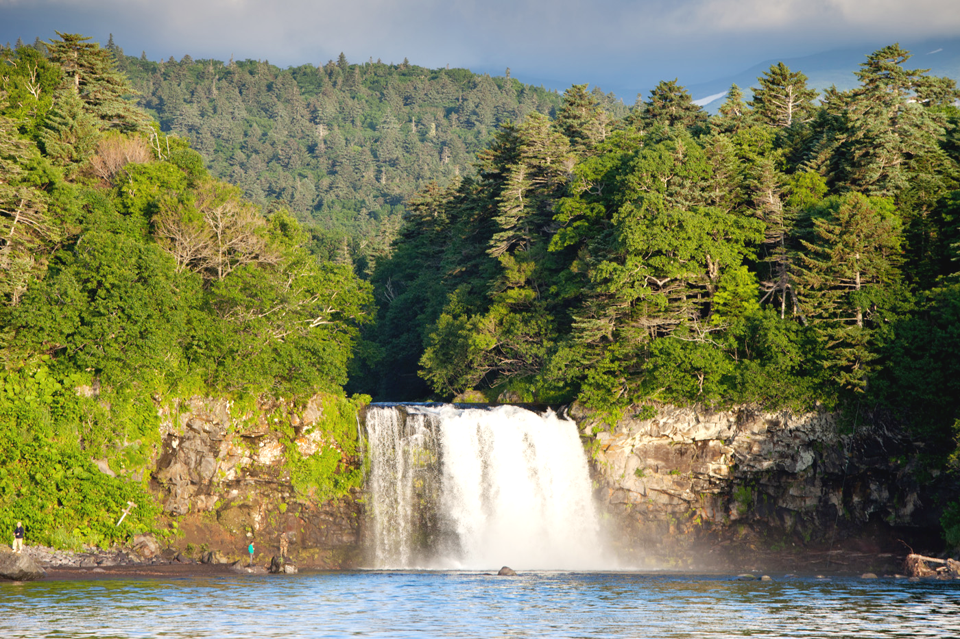 Ptichi (Bird's) waterfall on Kunashir island